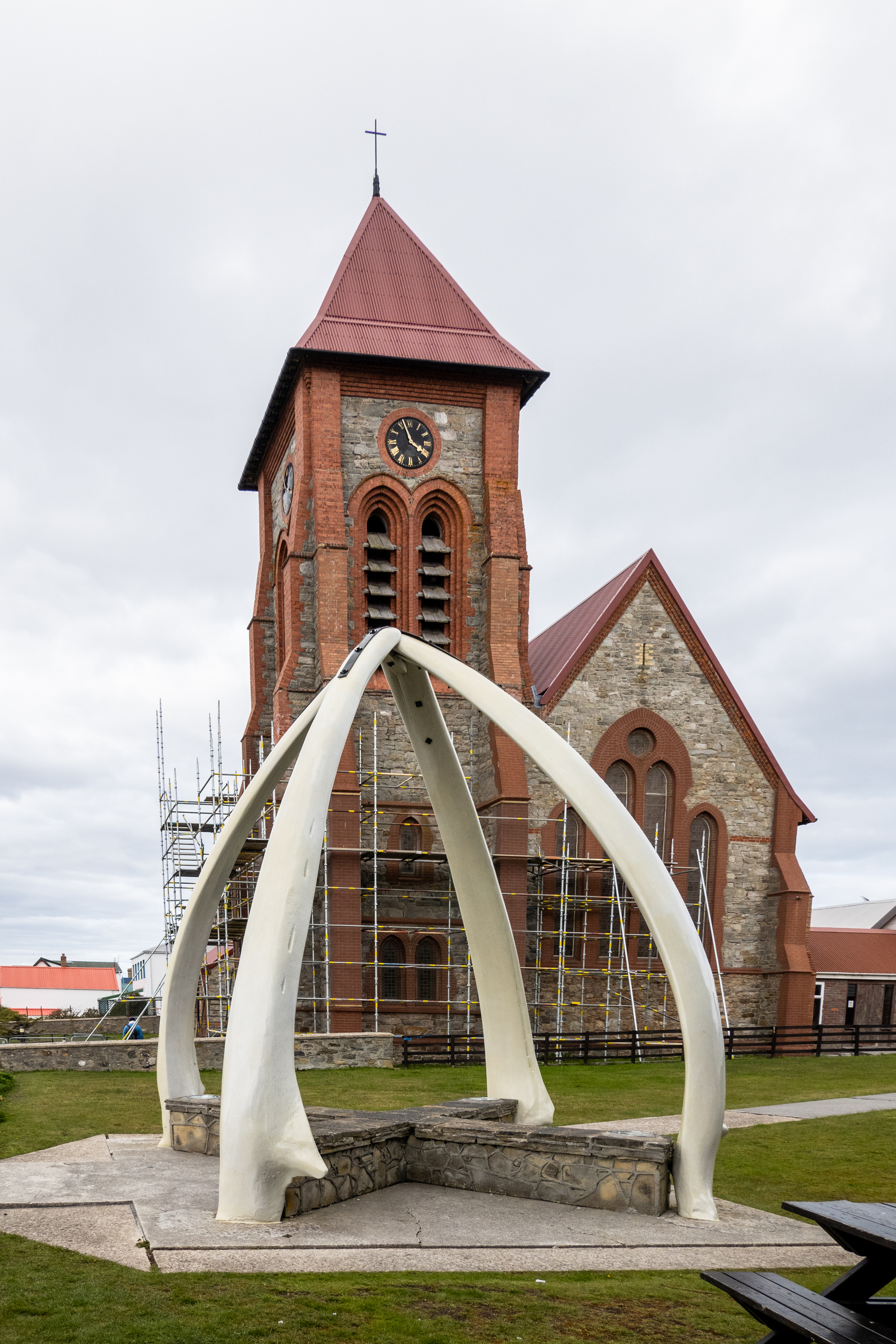 Church Stanley Falklandislands